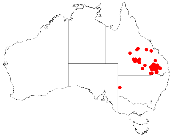 Acacia apreptaOccurrence data from Australasia Virtual Herbarium downloaded from on 8 December 2018